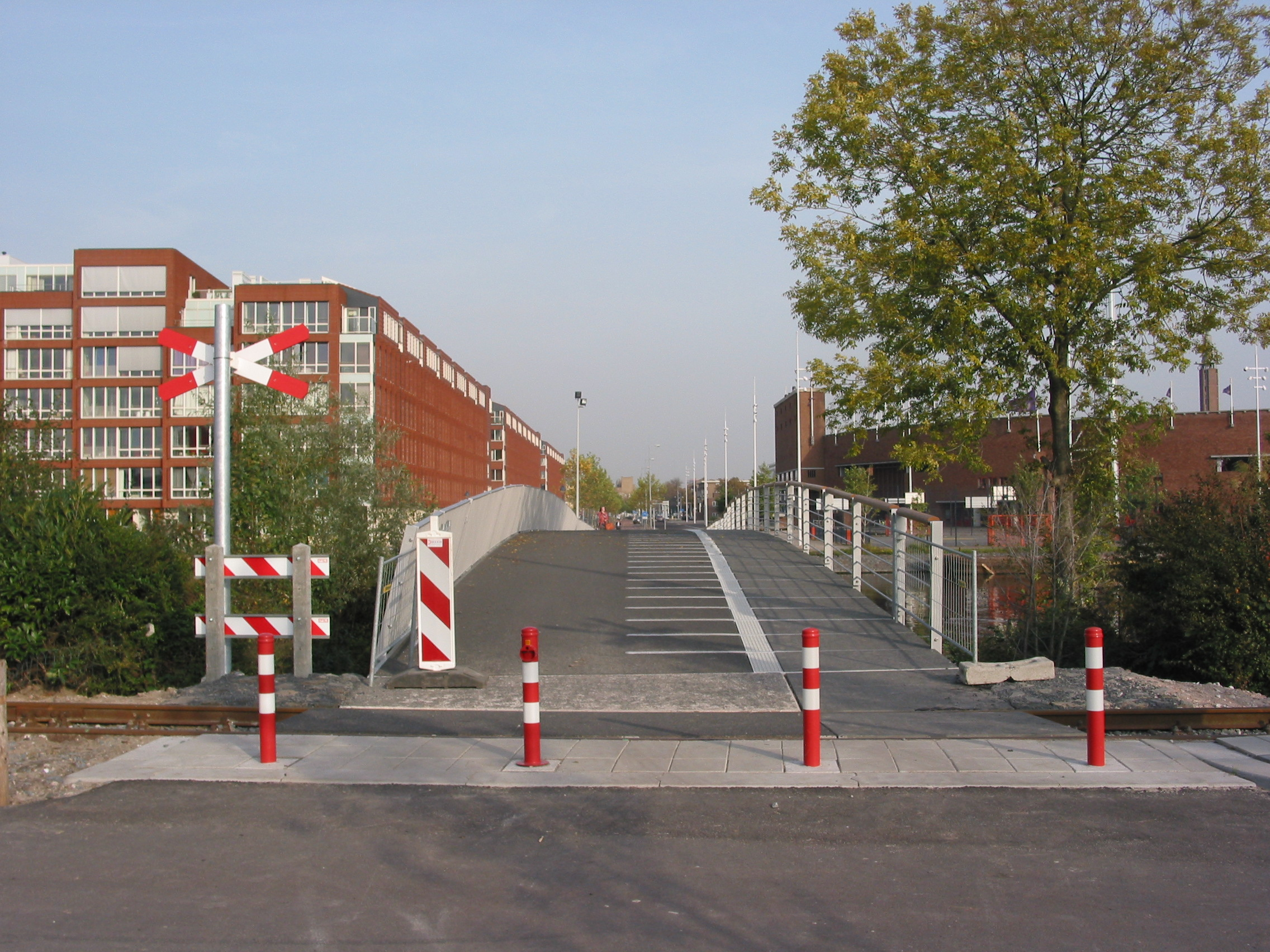 Jan Wils Bridge, Amsterdam. In the background on the right the Olympic Stadium of 1928. In the foreground the rails of the Amsterdam Tramway Museum.